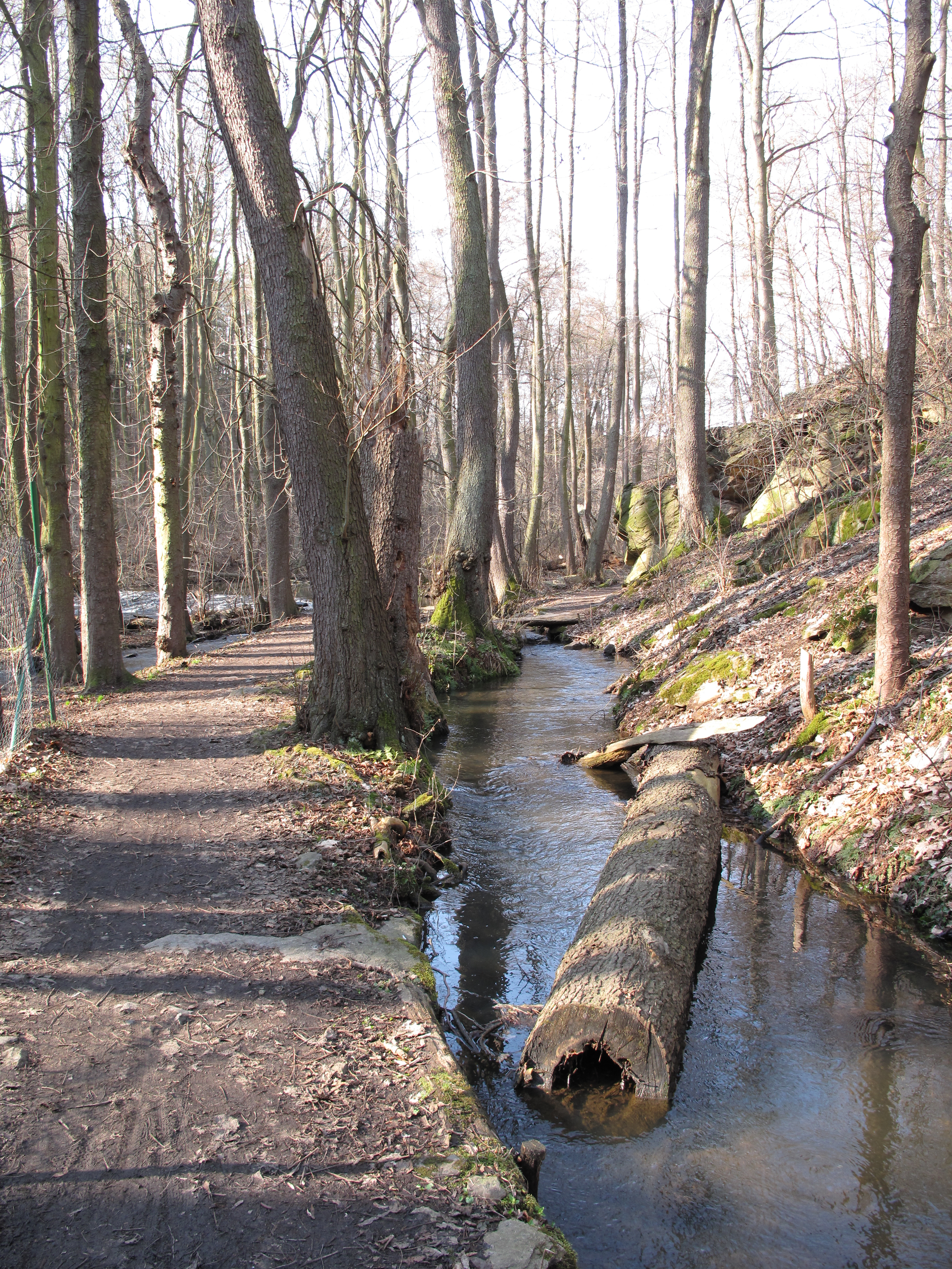 Spálený's Mill mill-race, Kutná Hora District, Czech Republic. This photograph was taken within the scope of the 'Czech Municipalities Photographs' grant.